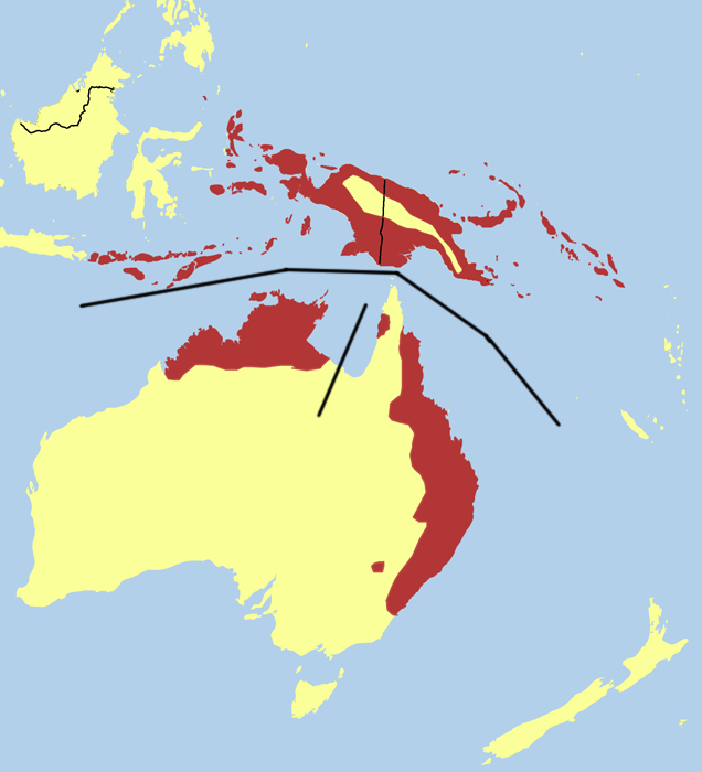 The Distribution of the Pacific Baza